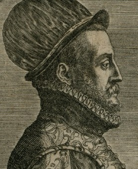 Portrait of Corneille de Blockland, aged 35.